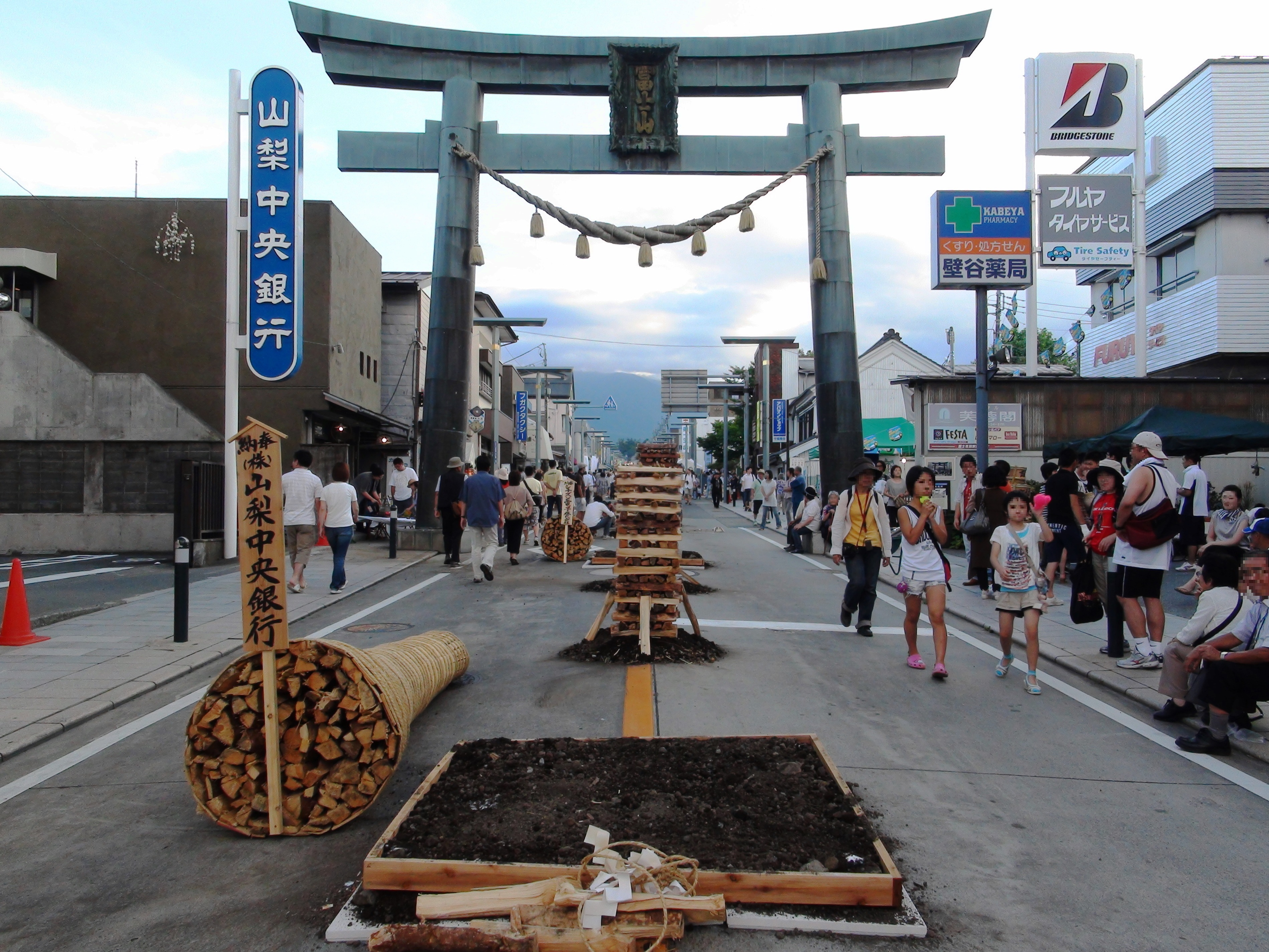 Yoshida Fire Festival to be prepared on Kanadorii